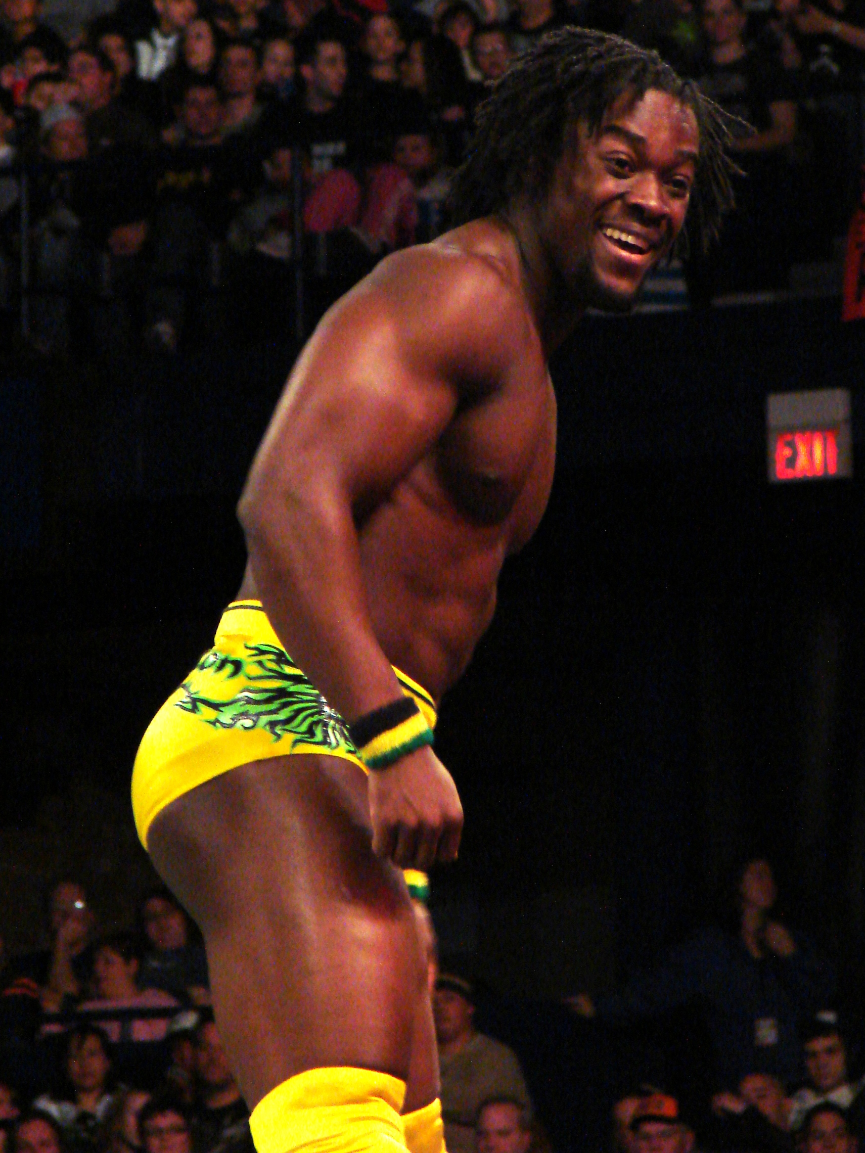 Kofi Kingston at ECW. Allstate Arena, Rosemont, IL